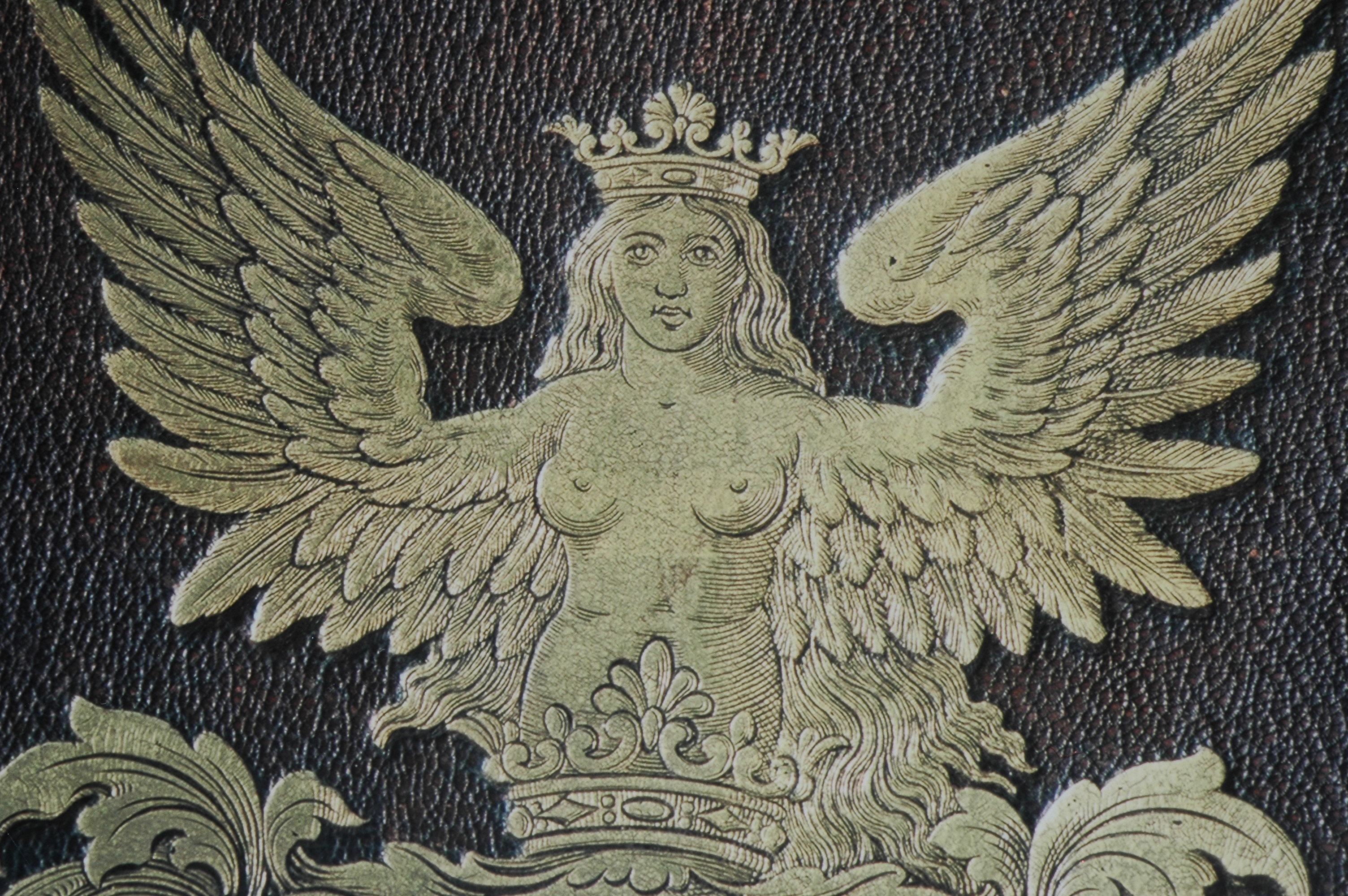 Detail on the cover Late 19th century Swiss album of family portraits. This detail shows the von/de/a Salis family crest, Bellonna, the Etruscan goddess of war. Summary photo: R. de Salis, April 2006. My scan of my photo of part of the cover of a late C19th Swiss album of family portraits, showing the von/de/a Salis family crest, Bellonna, the Etruscan goddess of war.Rodolph (talk) 12:30, 17 December 2013 (UTC)